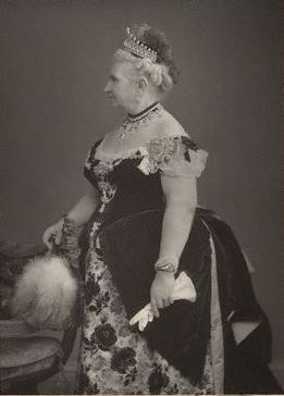 Picture of HRH The Grand Duchess of Mecklenburg-Strelitz (1822-1916) at the coronation of King Edward VII and Queen Alexandra